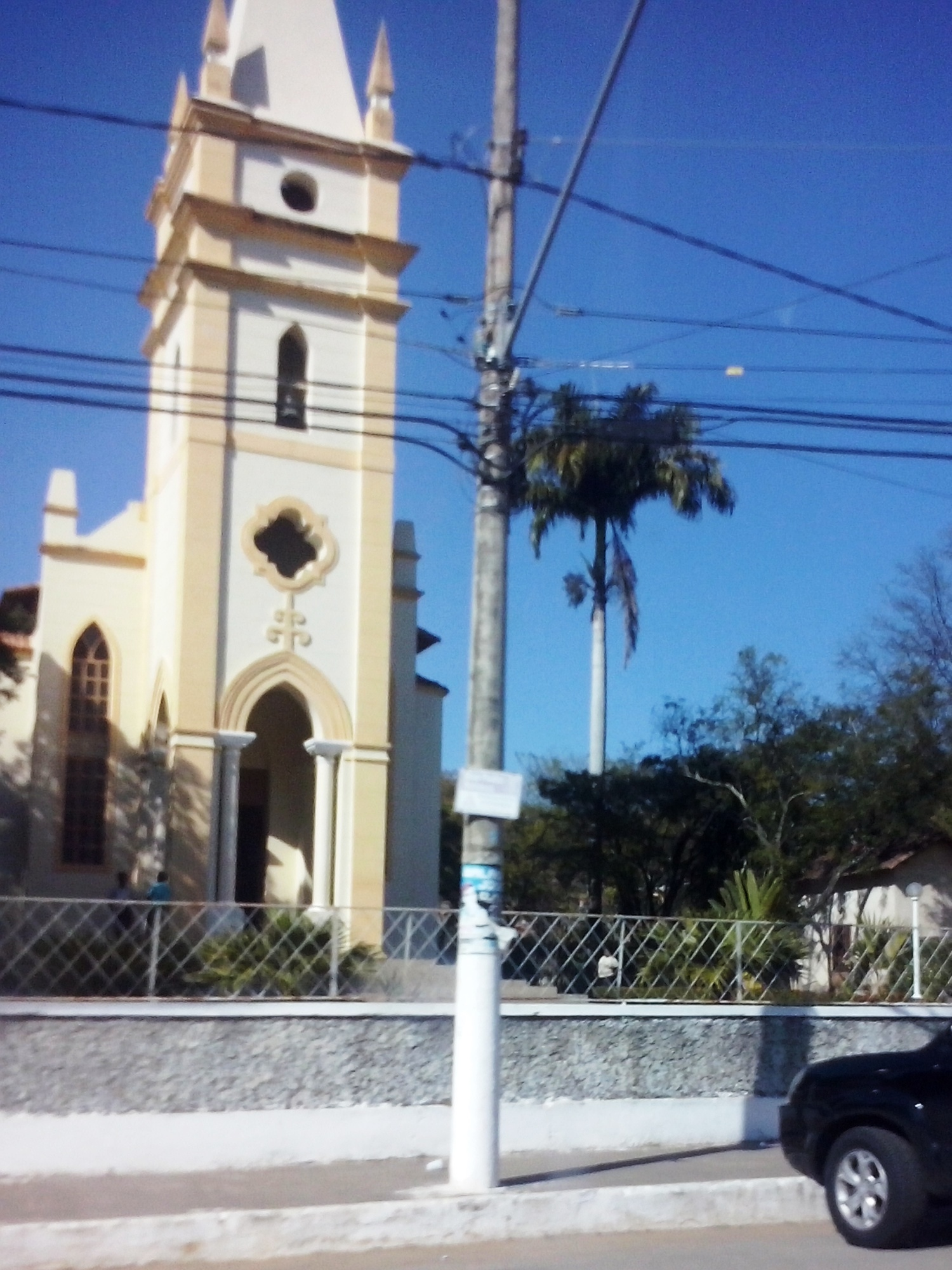 Front of the Nossa Senhora do Carmo Church, in Aimorés, Minas Gerais, Brazil.